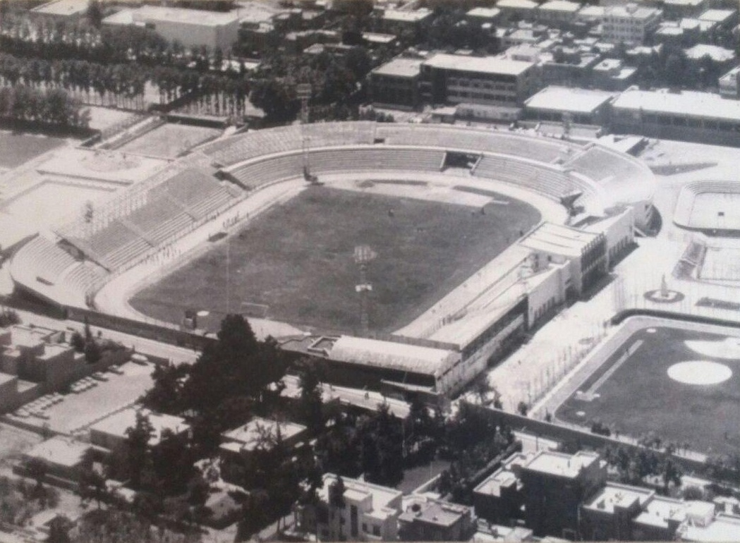 Aerial photograph of Amjadieh Stadium during 1960s Tehran, Iran